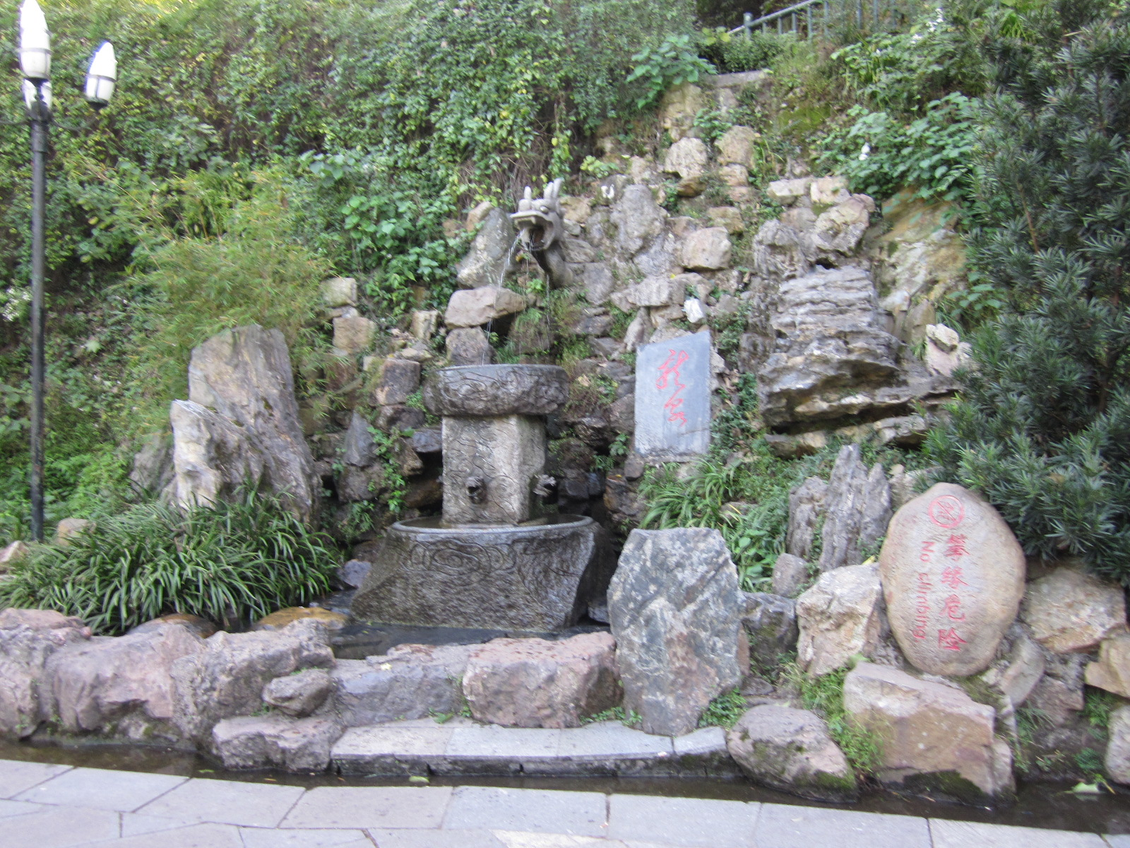 DiShui Hole